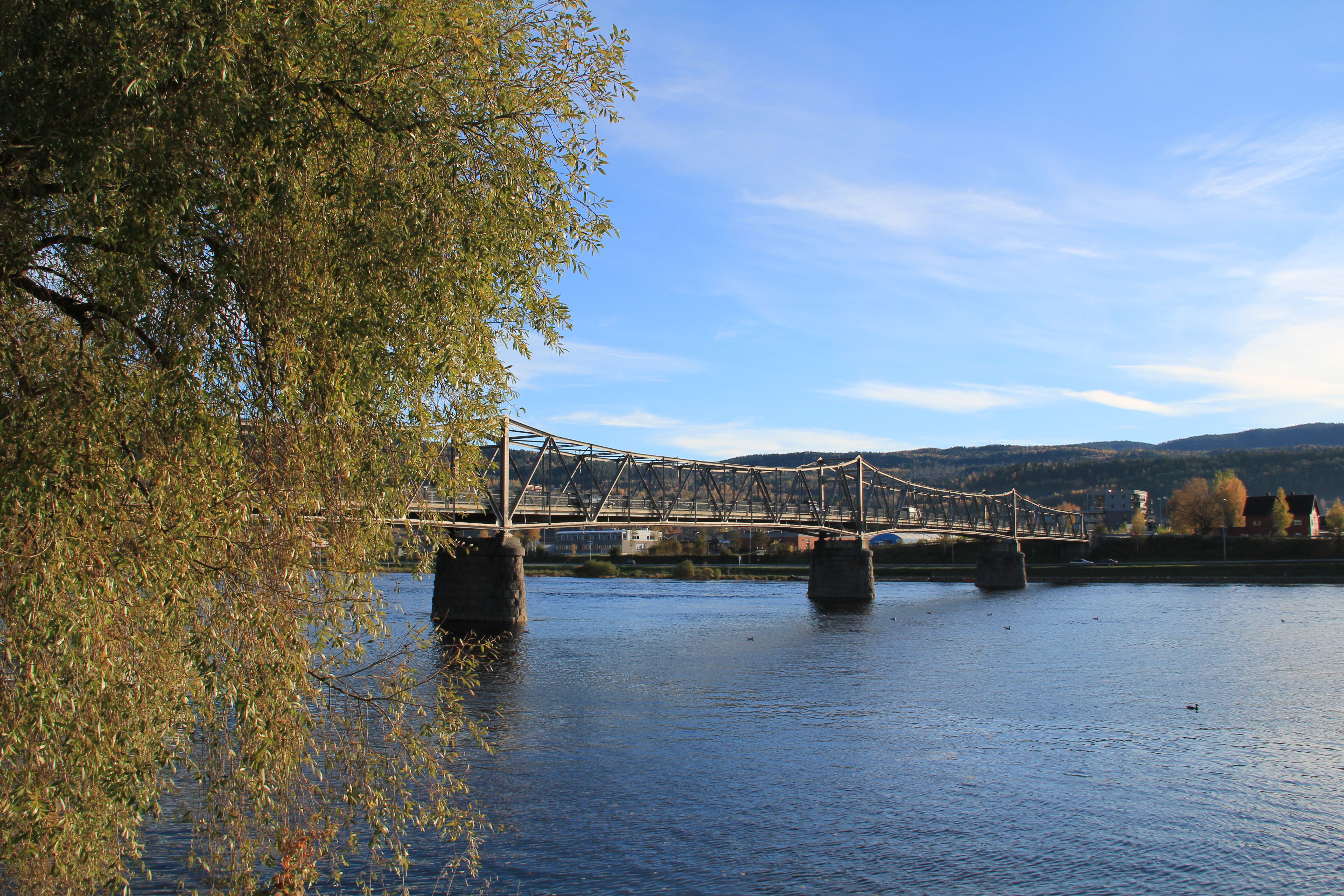 Mjøndalsbrua from Krokstadelva towards Mjøndalen.